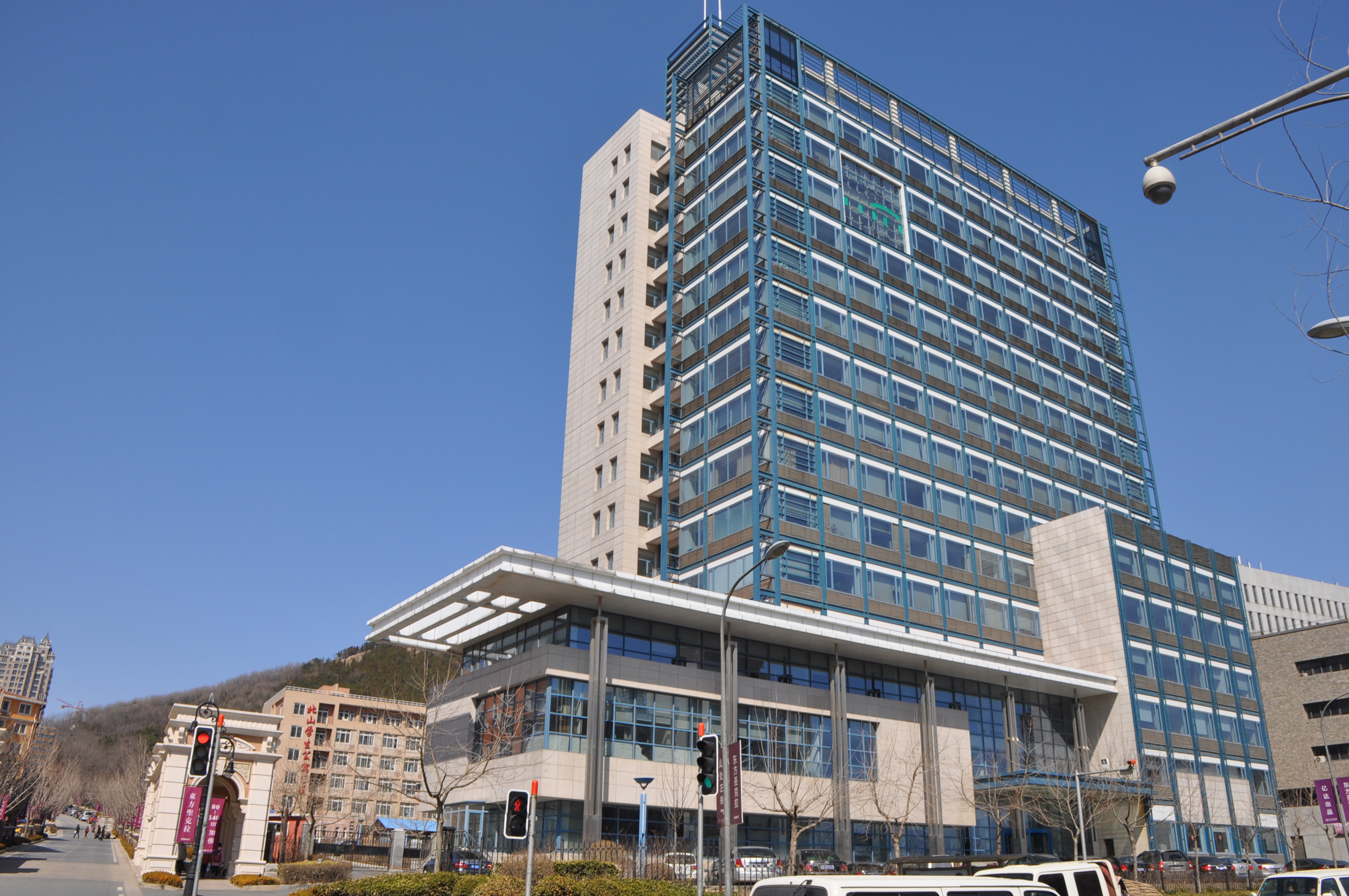 Dalian University of Technology - Science Park B Bldg